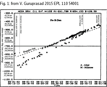 Graph of the SSN range residuals in the 1998 NEAR flyby with lag, range annotations